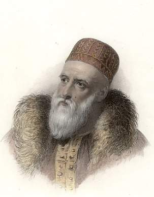 Ali Pascha von Janina, title role (based on Tepedelenli Ali Paşa) in Albert Lortzing's 1928 Singspiel Ali Pascha von Janina; steel engraving by William Finden, drawn by F. Stone (1837)